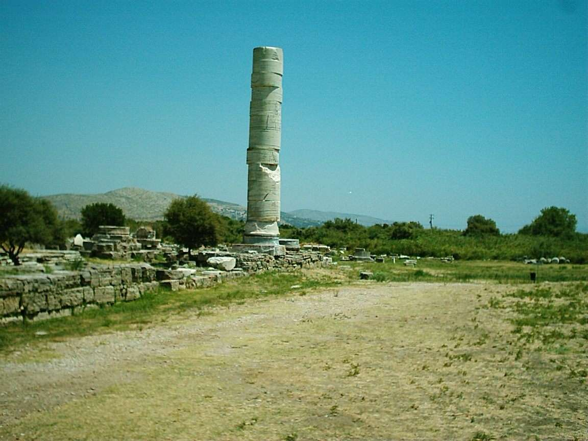 Säule im Heraion auf Samos. Copyright Ch. Eckert 2003. Published under terms and conditions of the FDL.